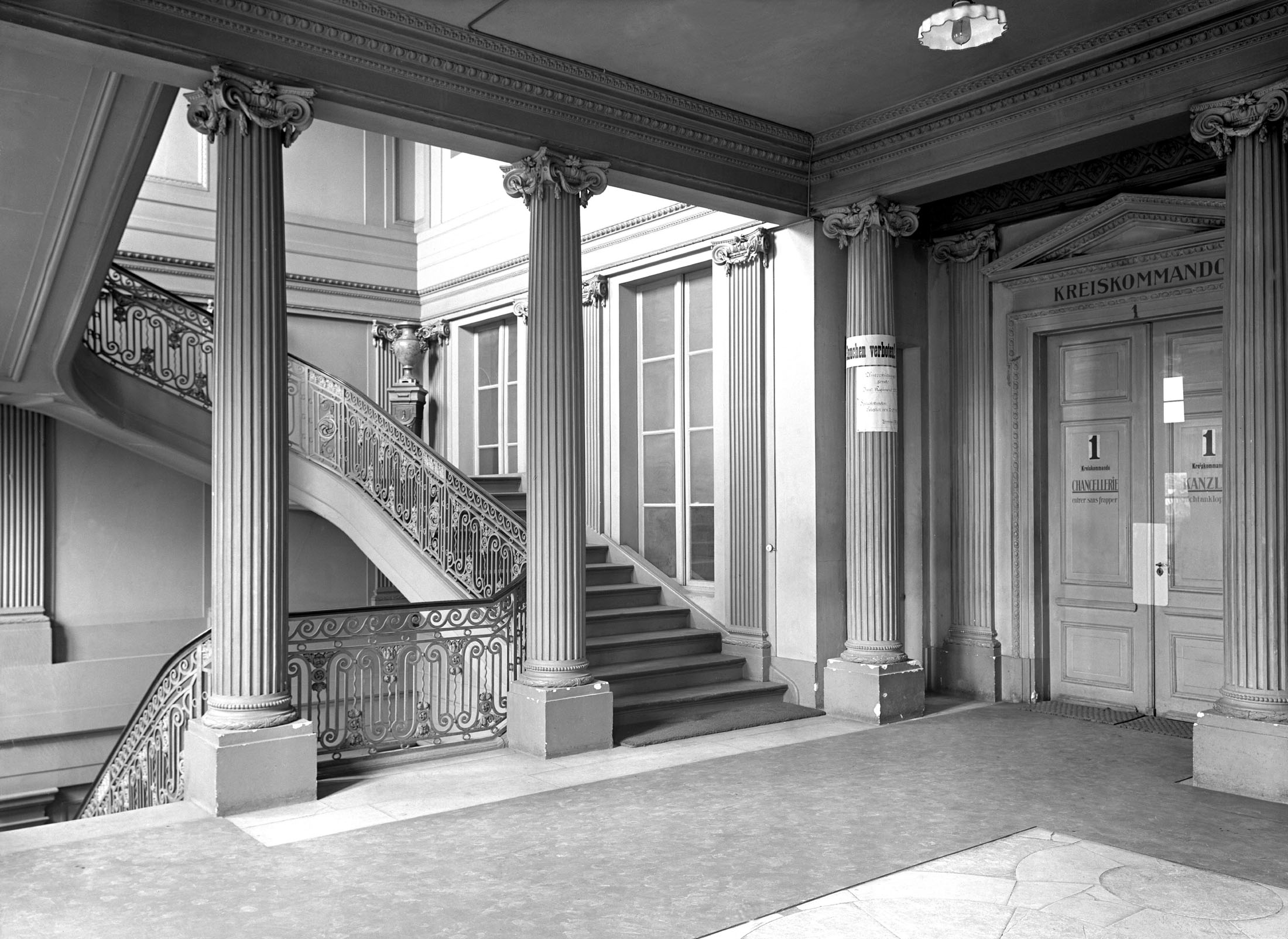 Staircase of the Haus zum Kirschgarten, Basel